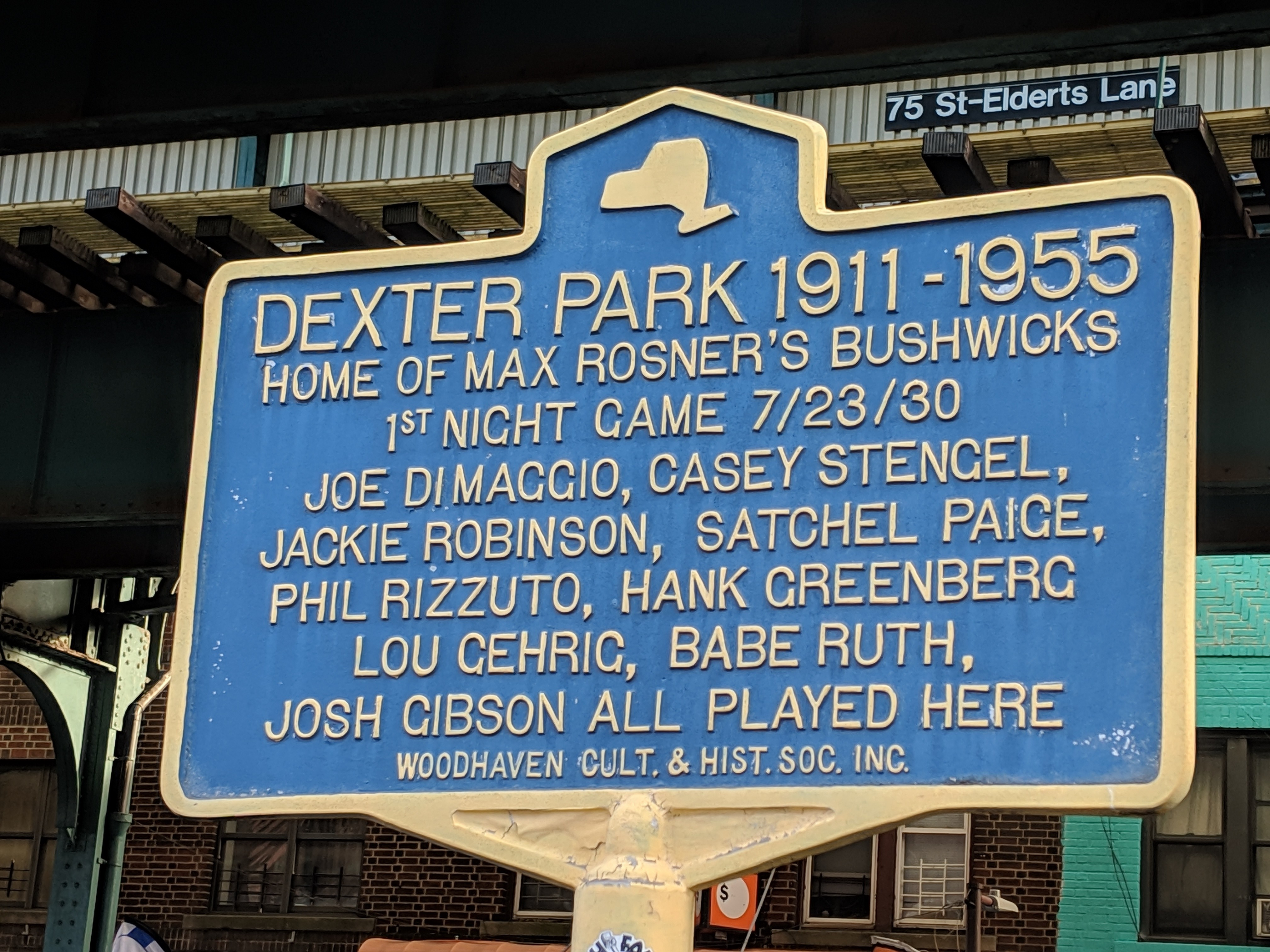 Dexter Field was illuminated in 1930, former horse race track and stock car track, famous for hosting Brooklyn Bushwick's of the Negro leagues, held 80yr attendance record for soccer final of National Challenge Cup match.